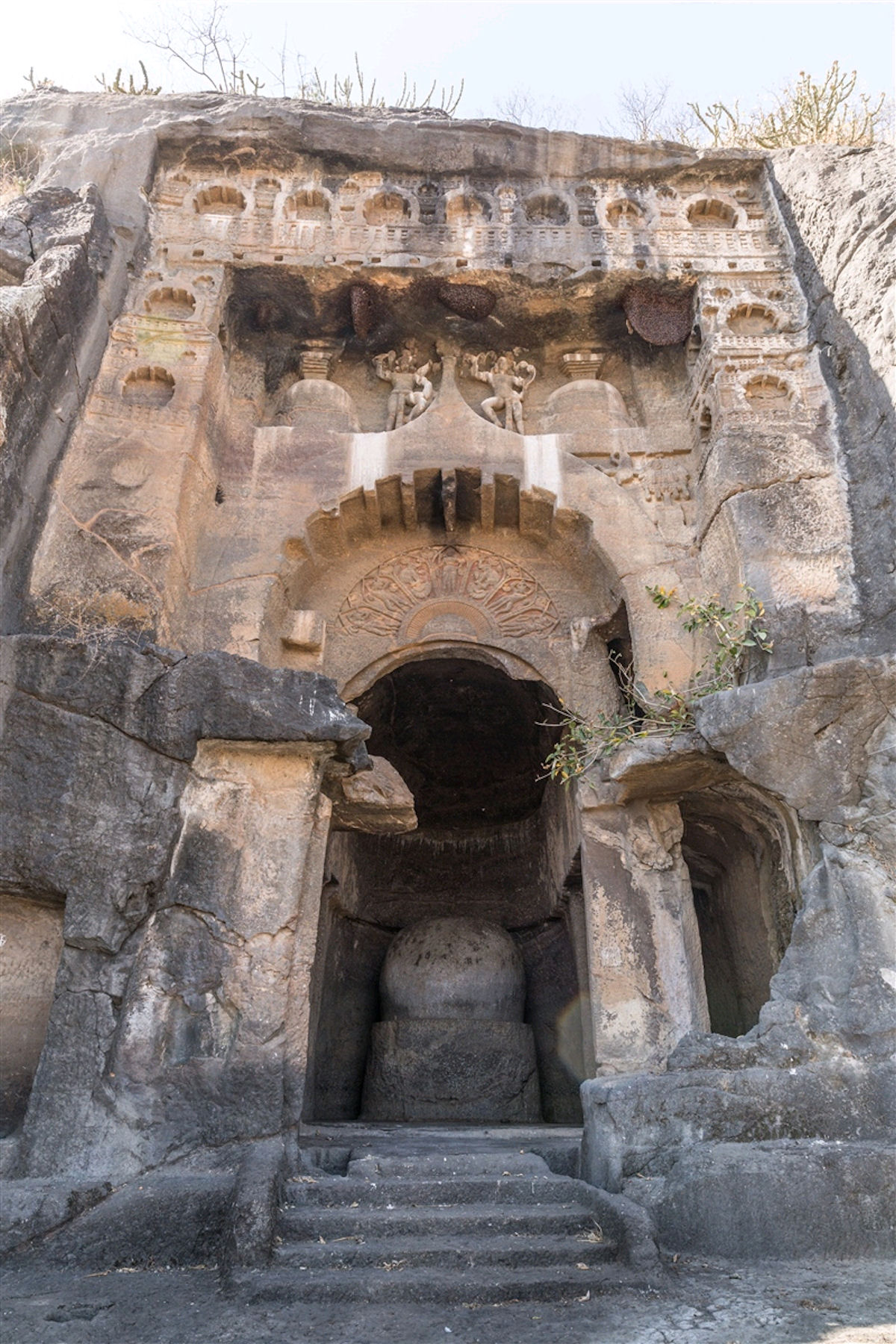 Bhutalinga caves chaitya